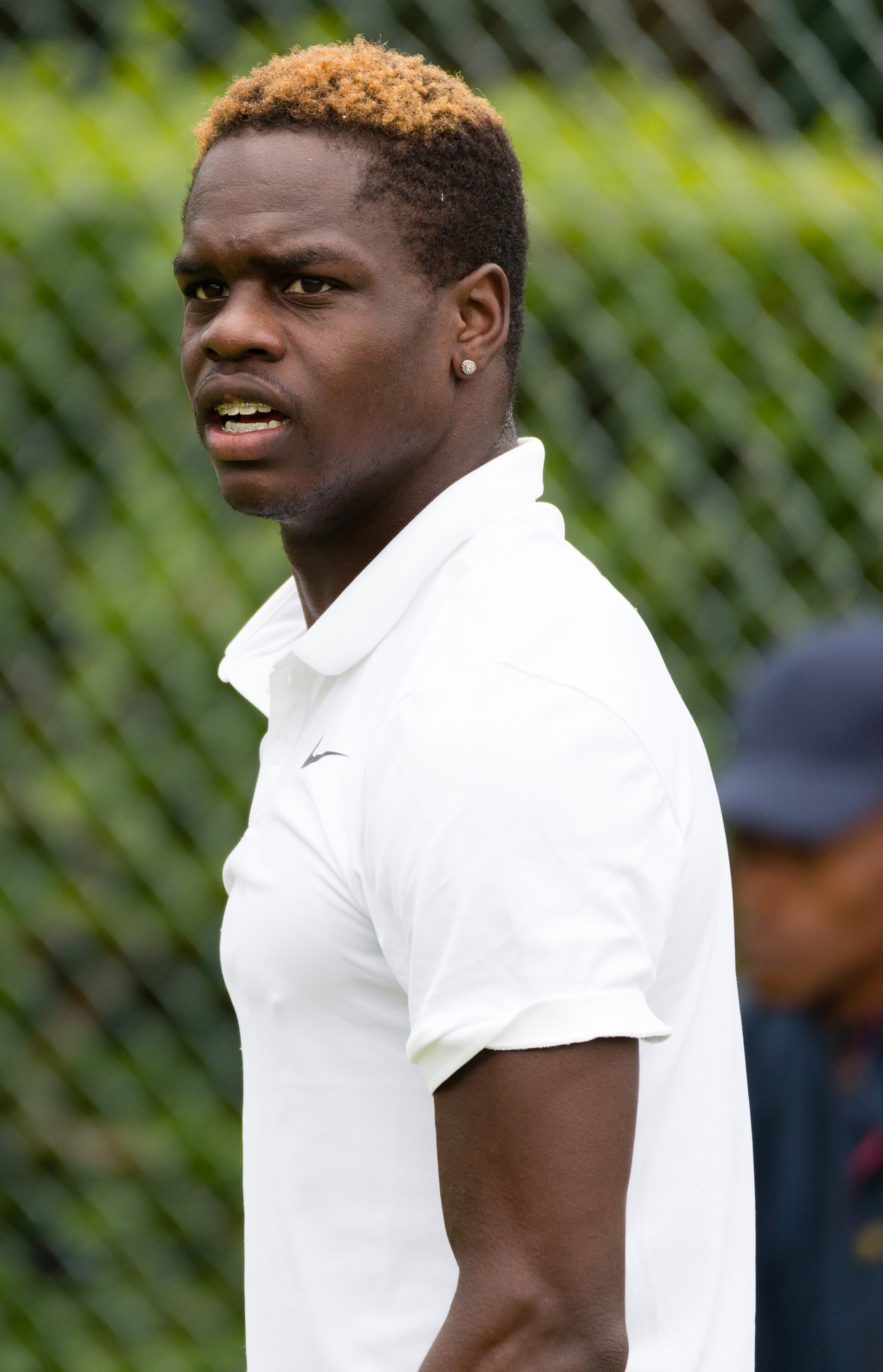 Jarmere Jenkins competing in the first round of the 2015 Wimbledon Qualifying Tournament at the Bank of England Sports Grounds in Roehampton, England. The winners of three rounds of competition qualify for the main draw of Wimbledon the following week